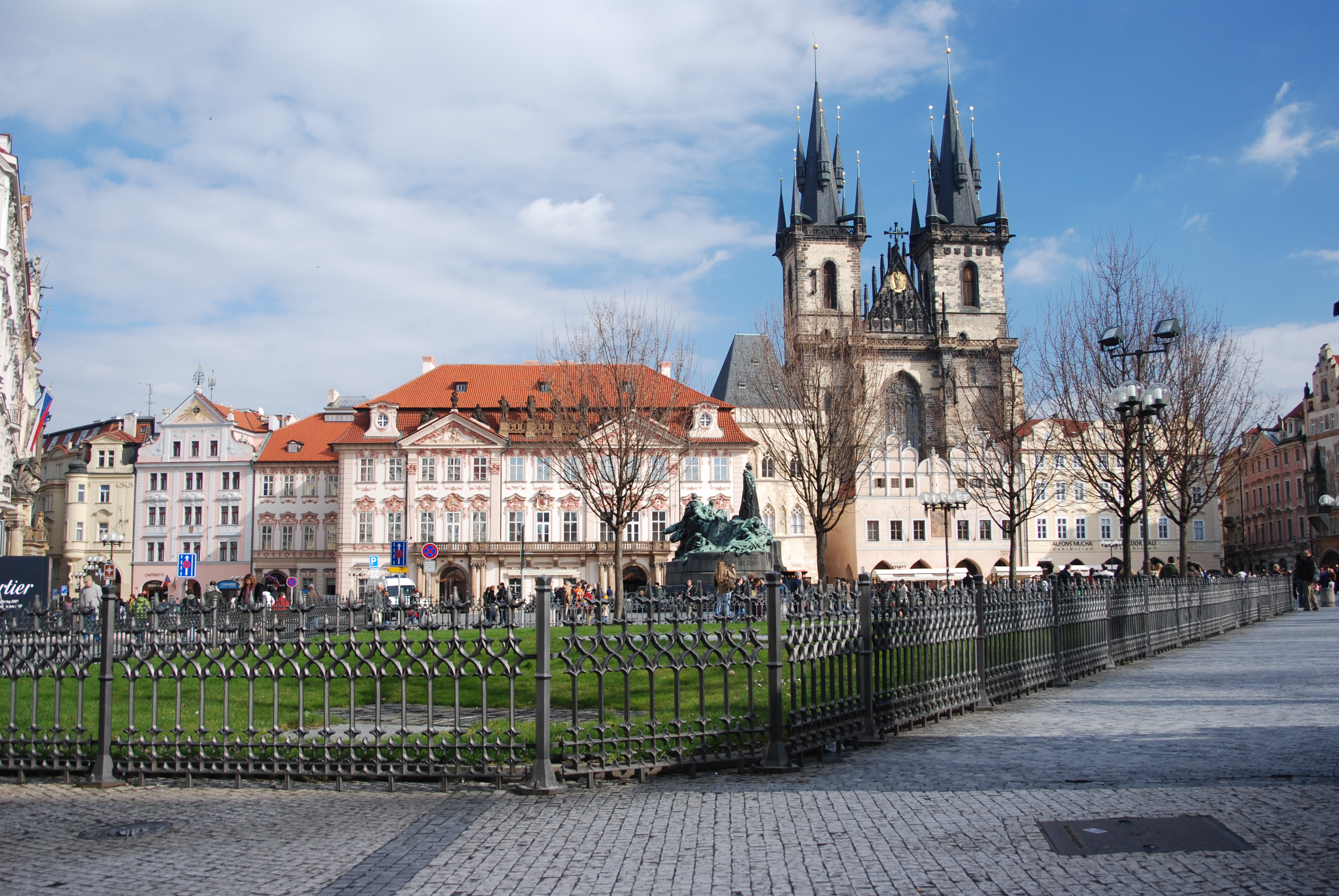 Old Town - square